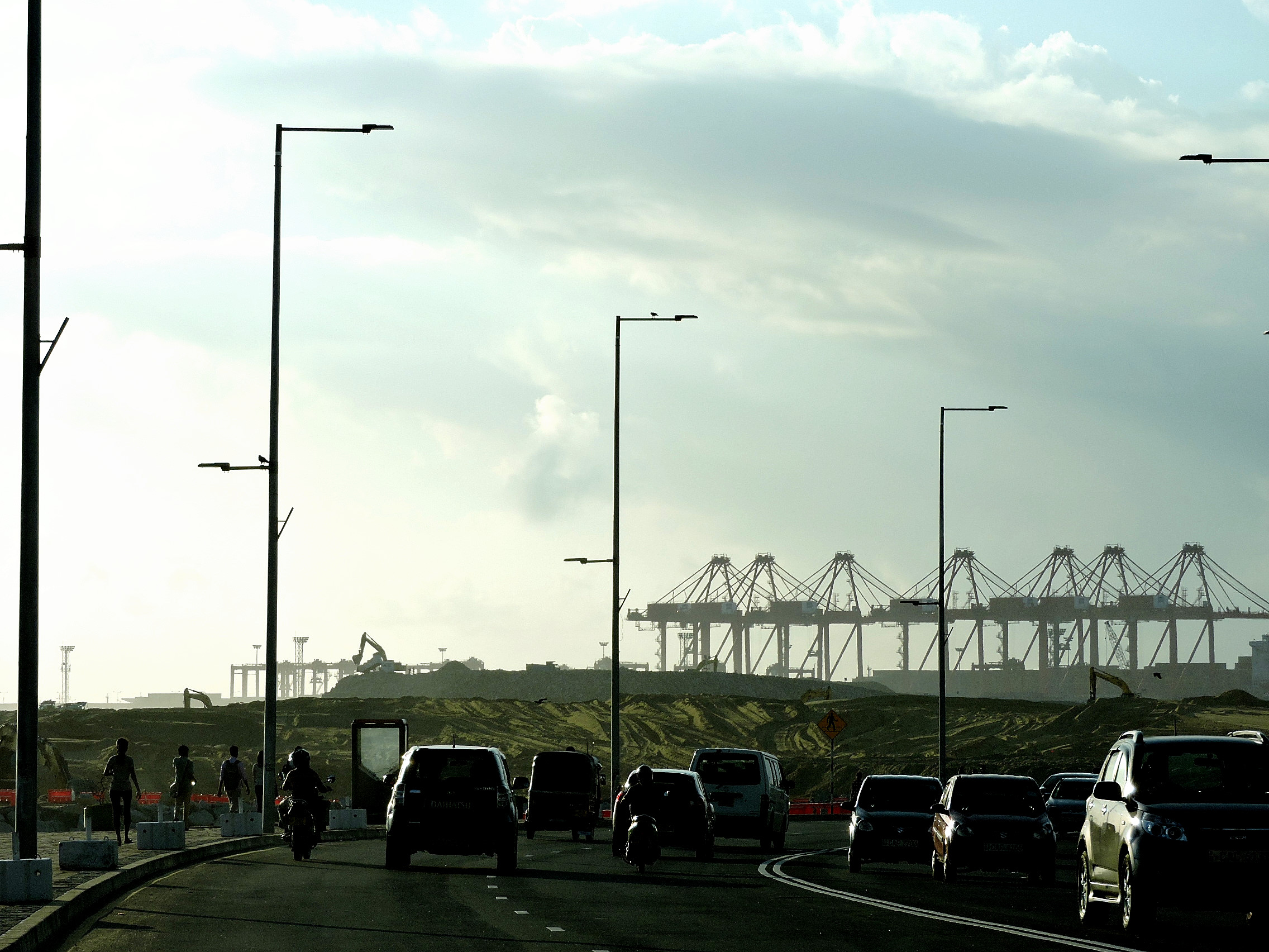 Colombo Port City seem from galle road.